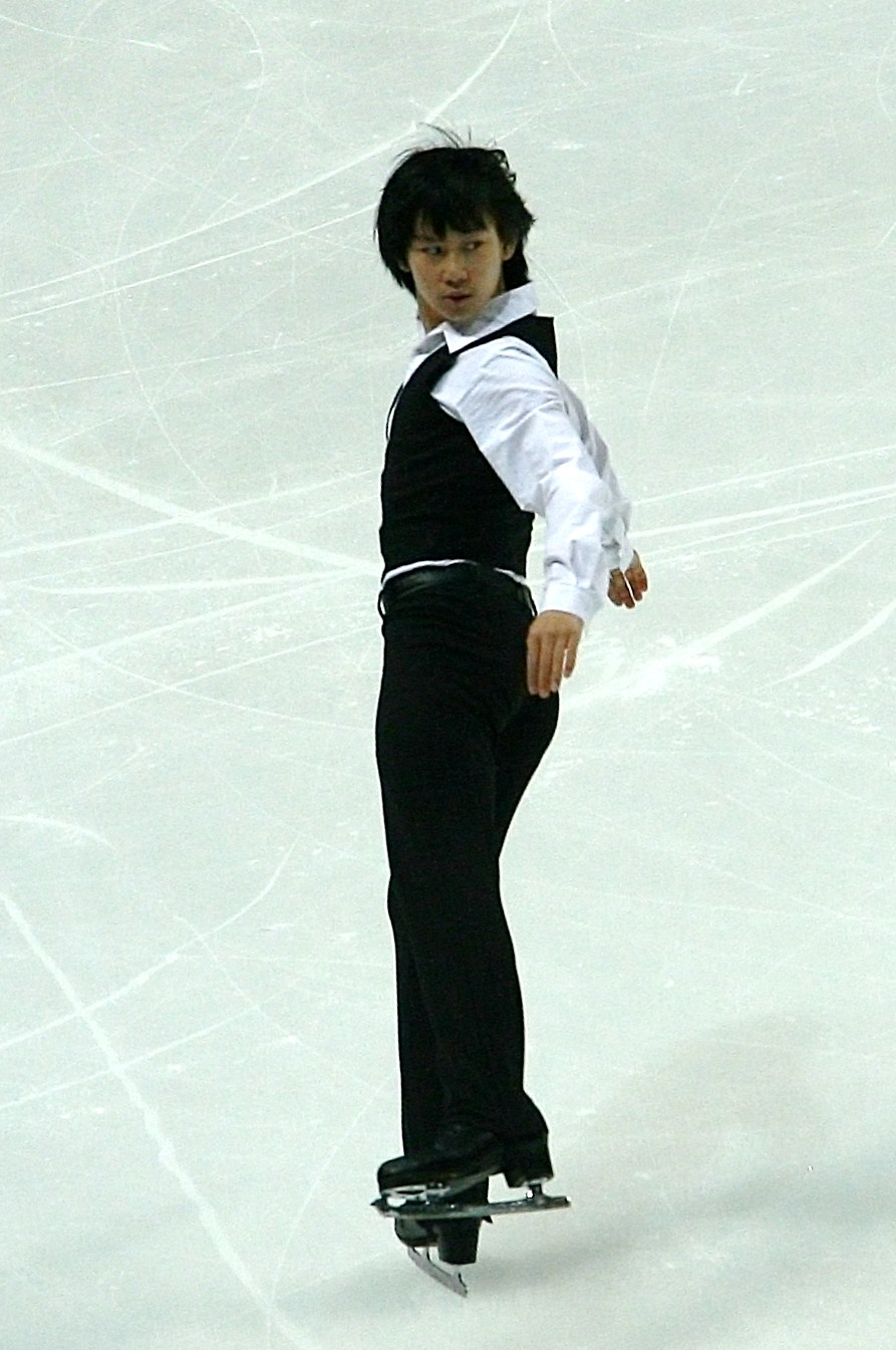 Denis Ten at the 2011 World Figure Skating Championships